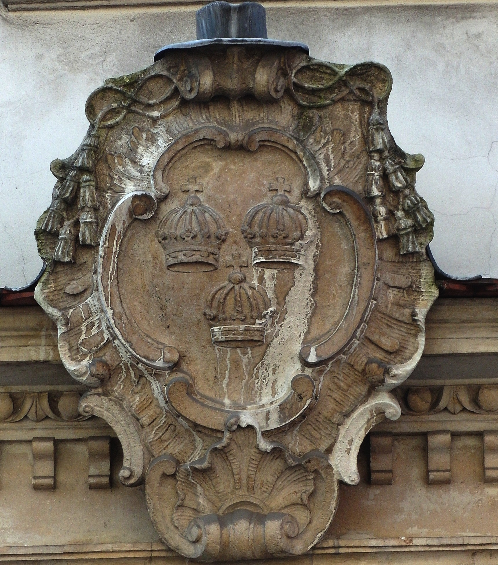 Coat of Arms of the Cracow Cathedral Chapter